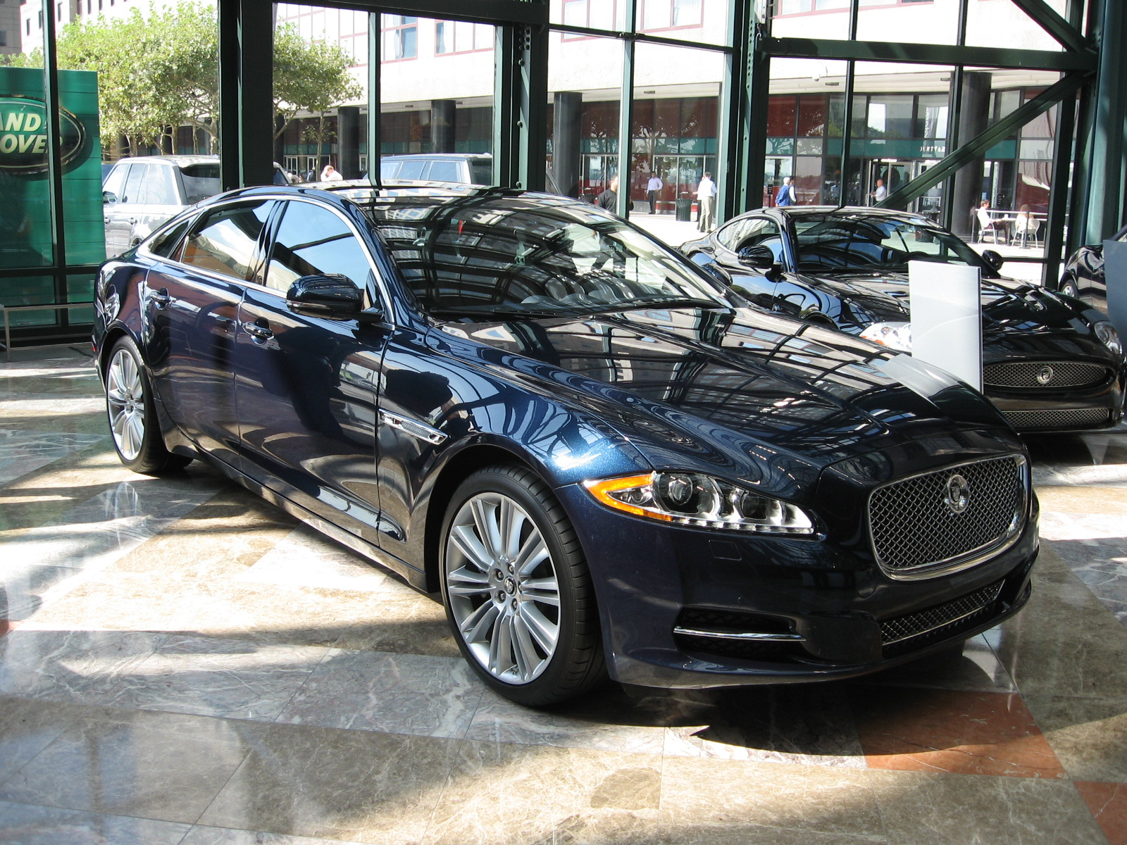 The 2010 Jaguar XJ, Motorexpo 2009, World Financial Center, New York City, 17 September 2009